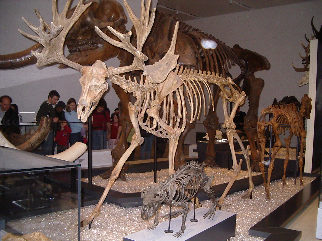 Stag-moose (Cervalces scotti) fossil at the ROM